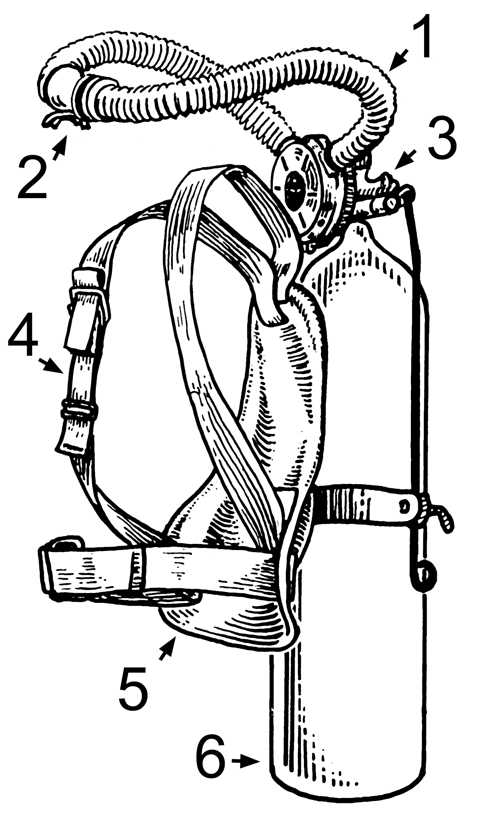 Line art drawing of an aqualung Hose Mouthpiece Valve Harness Backplate Tank